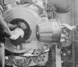 Closeup photograph showing coned interrupted thread breech of British QF 6 inch naval gun on cruiser HMS Ariadne.